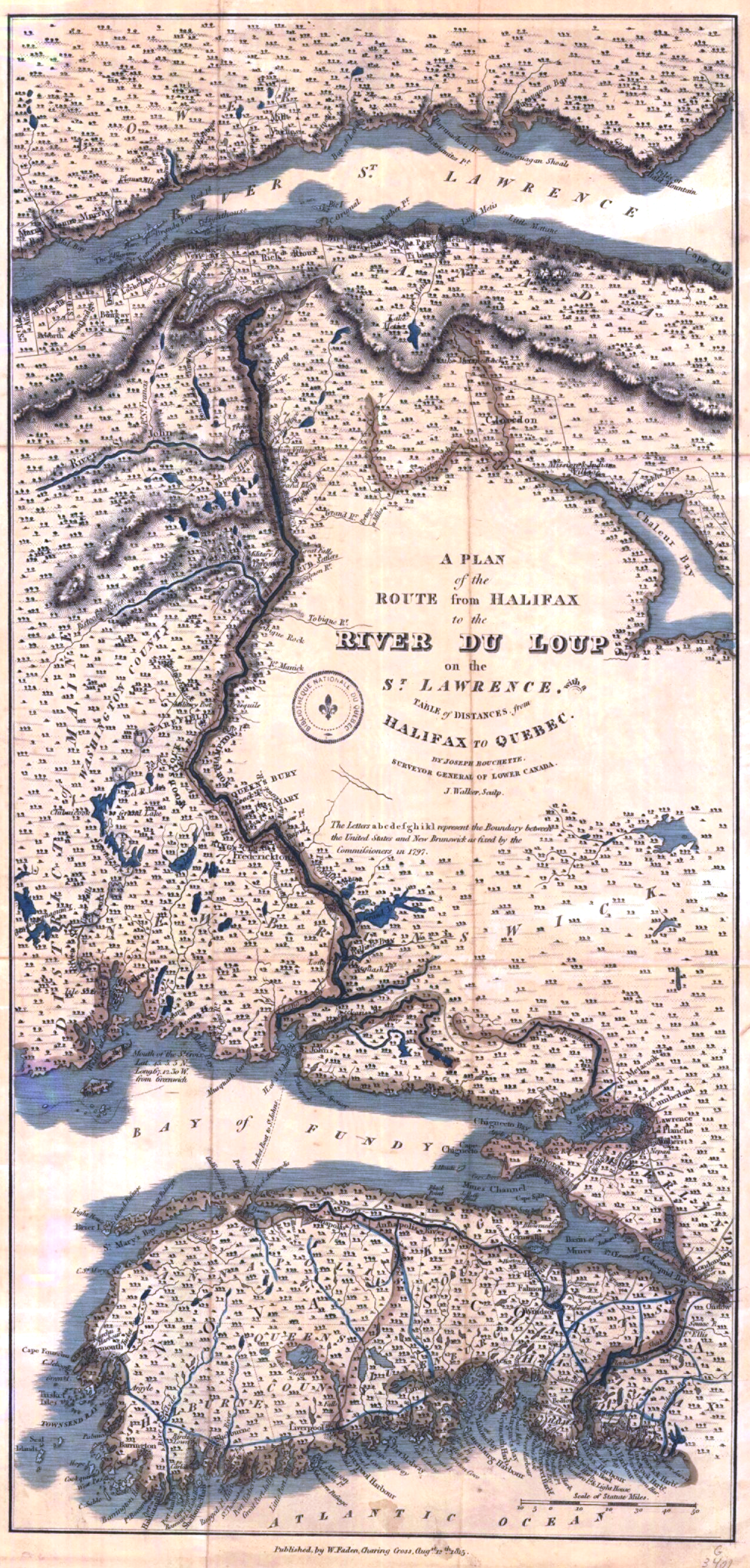 A Plan of the route from Halifax to the River du Loup on the St. Lawrence : with a table of distances from Halifax to Quebec